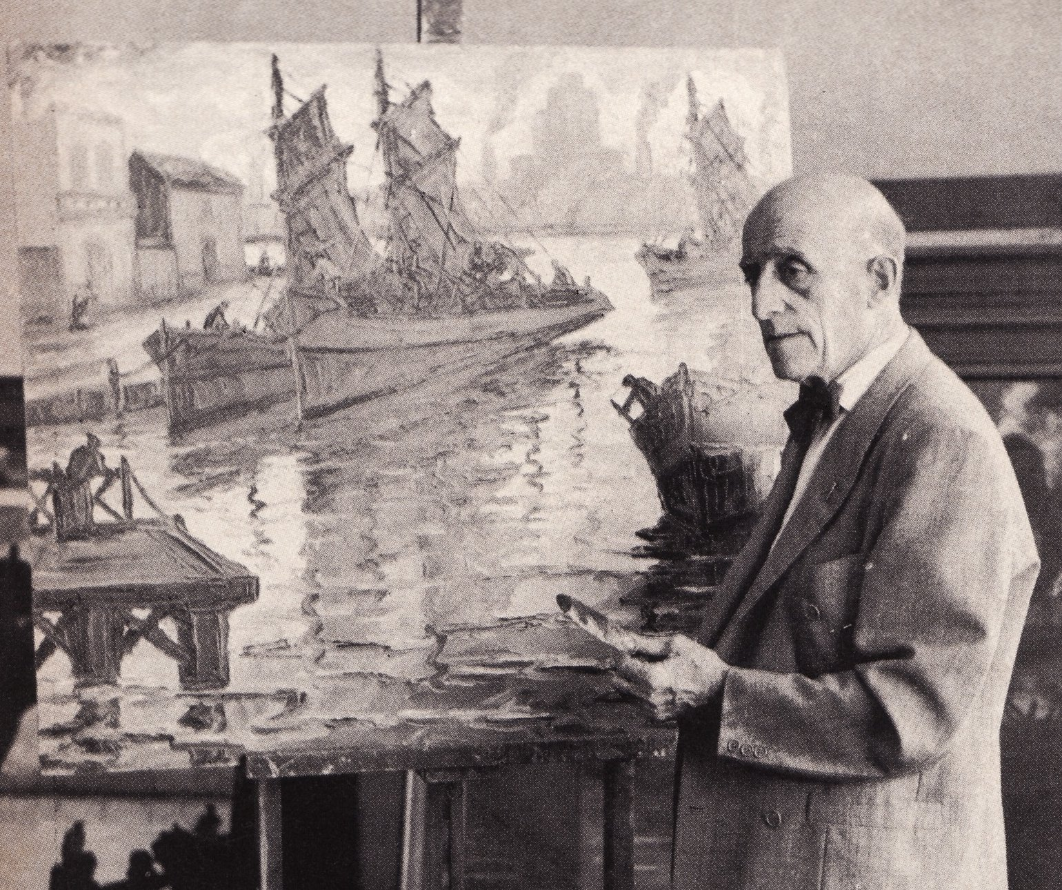 Argentine painter Benito Quinquela Martín (1890-1977) in his workshop of La Boca, Buenos Aires.